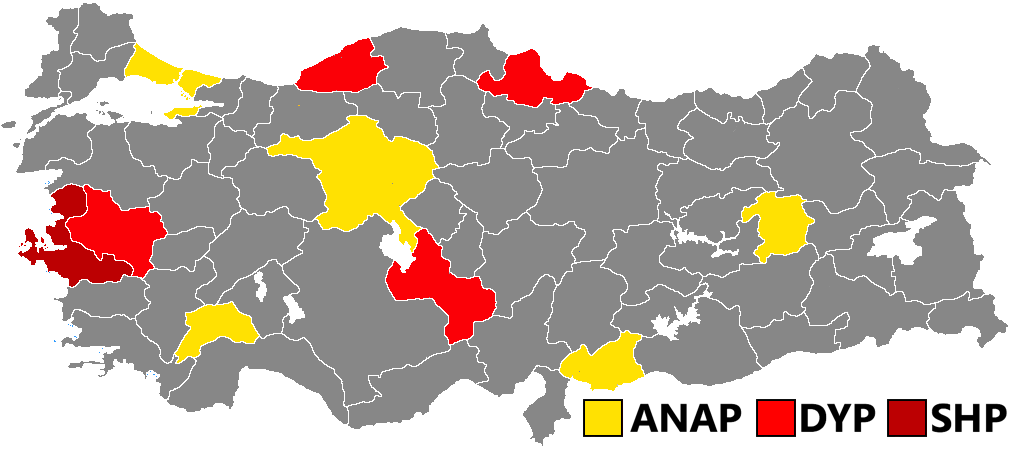 Map of the Turkish by-elections, 1986